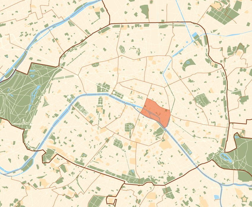 Plan by ThePromenader (own work)